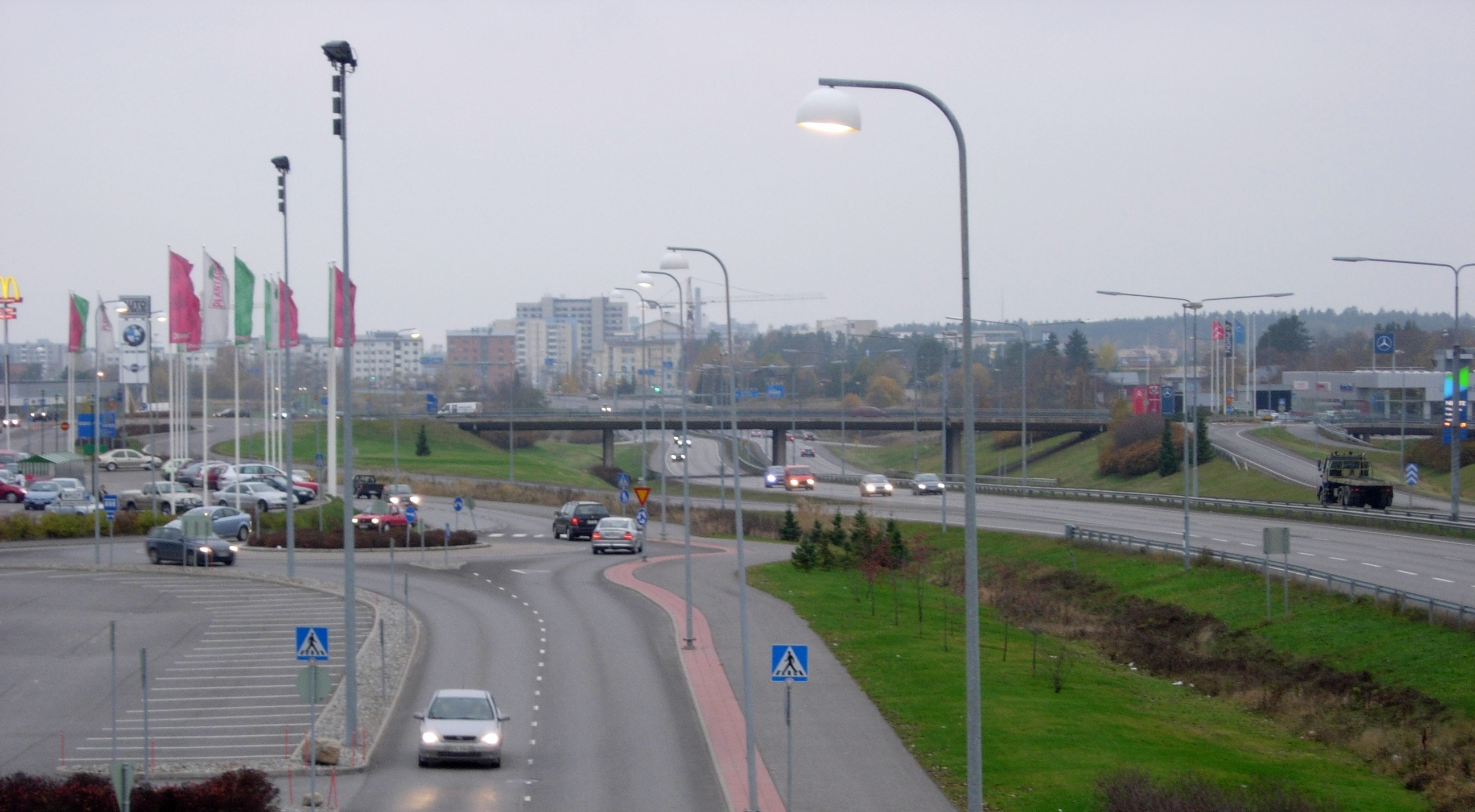 Raisio, Finland. National road 40 (E18) on the right.